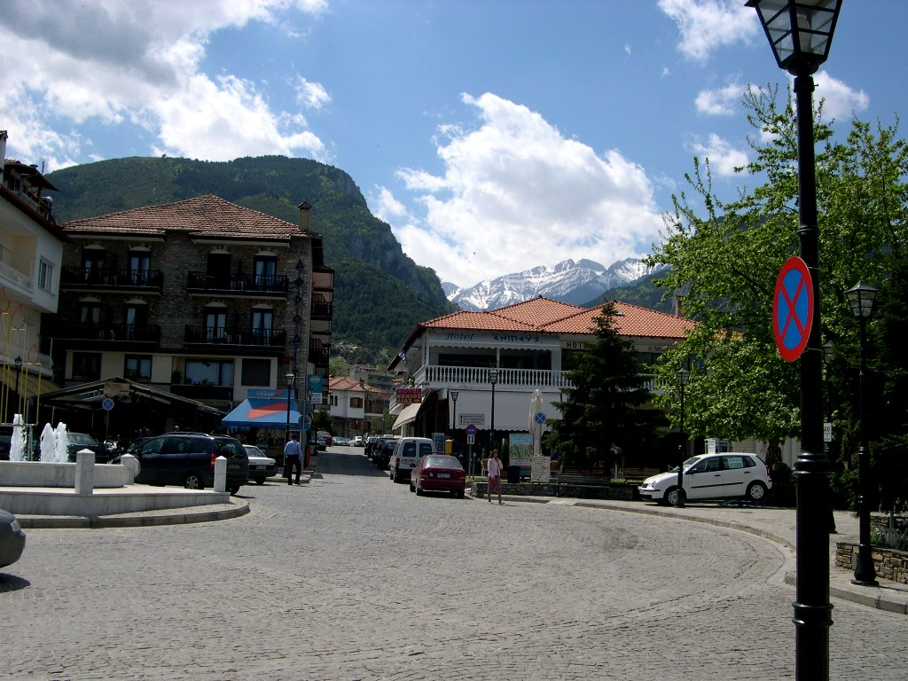 Litochoro, Greece - Central square